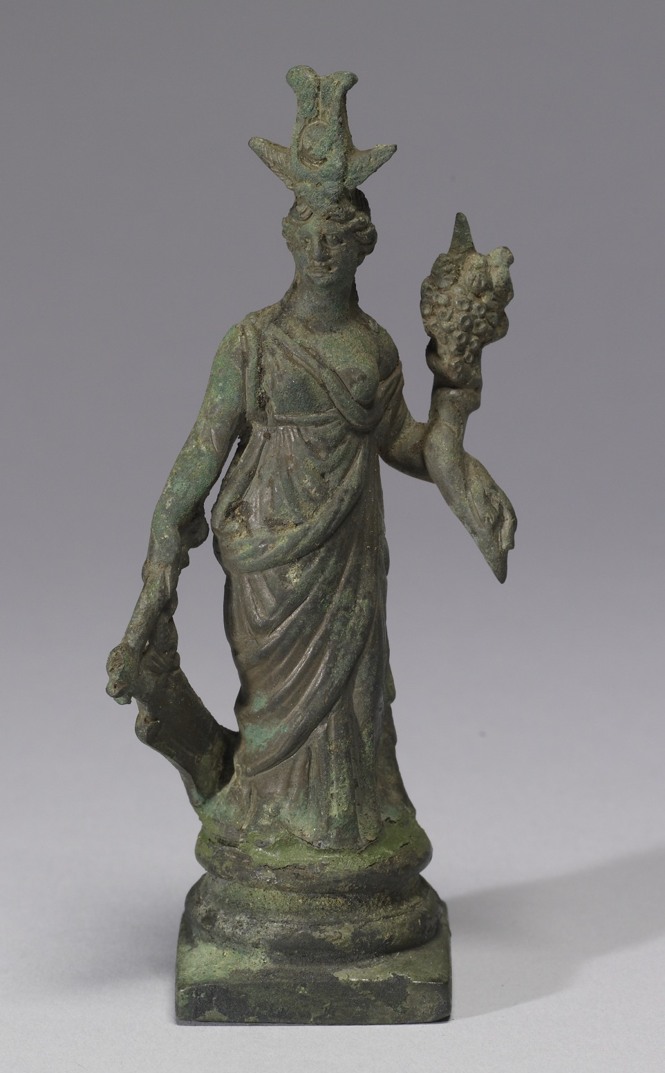 Each Roman household had a "lararium," or household shrine, in which small bronze figurines of deities, including "lares" (the divinities protecting the house) were displayed. The master of the house would make daily offerings at the shrine, as well as more ceremonial offerings on important occasions. This small figurine was found together with five others (Walters 54.752, 54.748, 54.750, 54.2290 and 54.749) in a "lararium" at Boscoreale, the site of a Roman villa near Pompeii. A "Genius" (or priest) stood before the household deities, Isis-Fortuna, Mercury, a seated Jupiter, Alexander Helios, and a standing Jupiter. These were divinities the family particularly venerated for the continuing good fortune of the household.